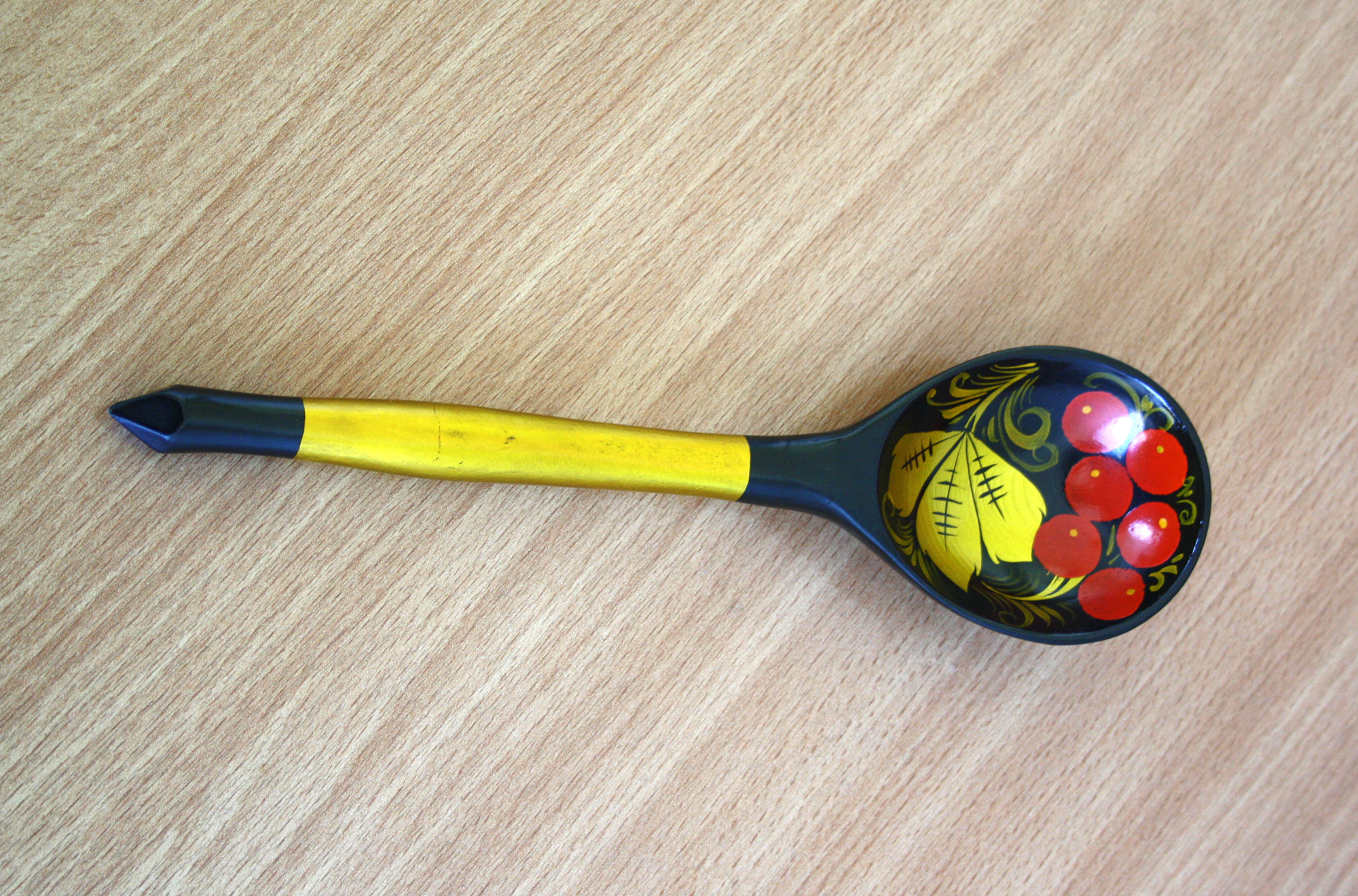 A Russian Khokhloma wooden spoon